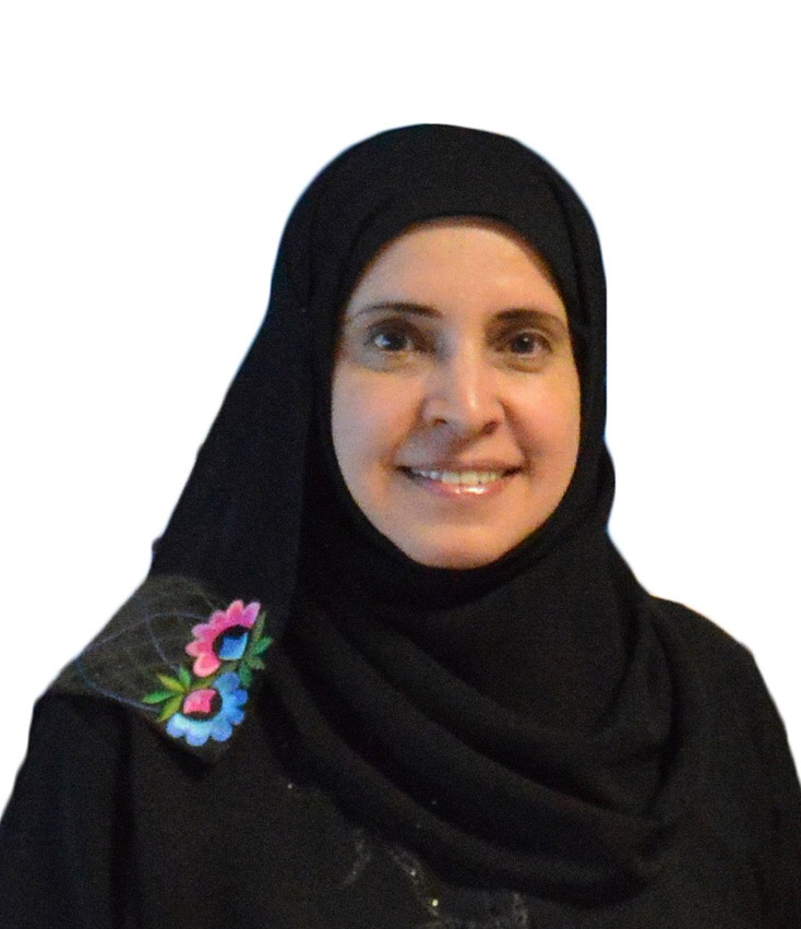 Ambassador of United Arab Emirates, H.H. Dr. Hissa Abdulla Ahmed Al Otaiba Photo.